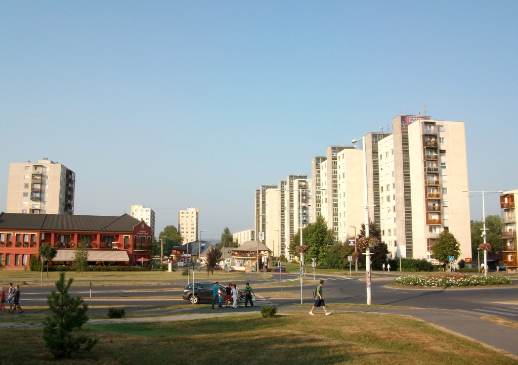 Intersection of Egressy Béni street and Jószerencsét street, Kazincbarcika, Hungary